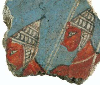 Fragment of a 13th century B.C. mural from Orchomenos depicting warriors in boar tusk helmets.